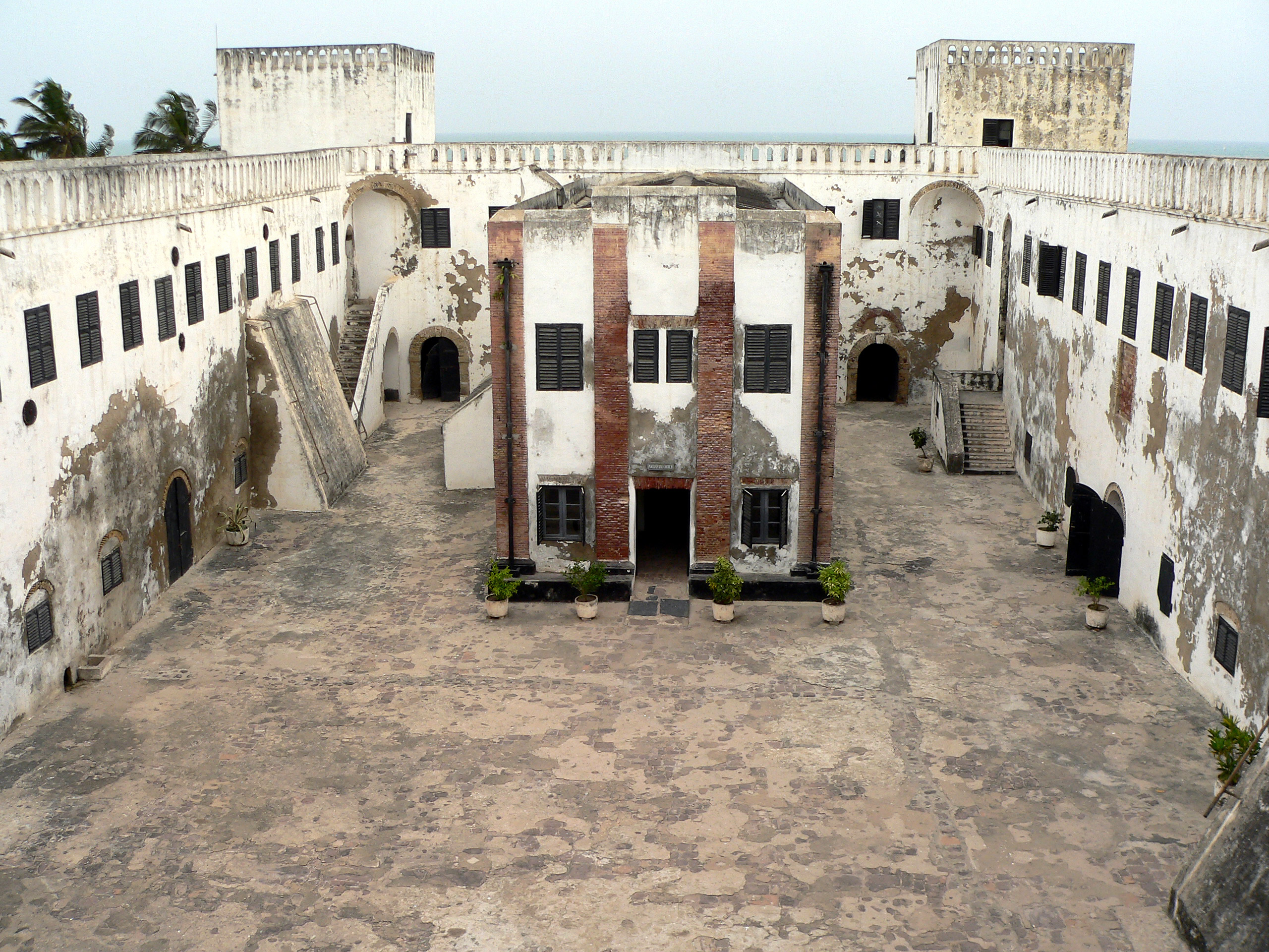 St George's Castle, slave fort, Elmina, Ghana 2005